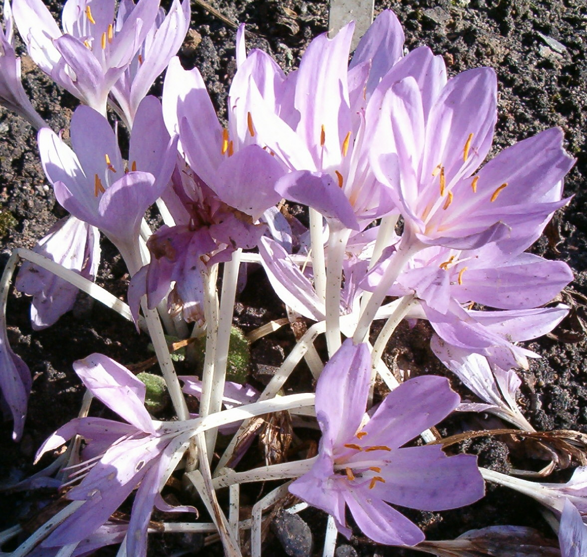 Colchicum byzantinum Location: Botanical Gardens Berlin